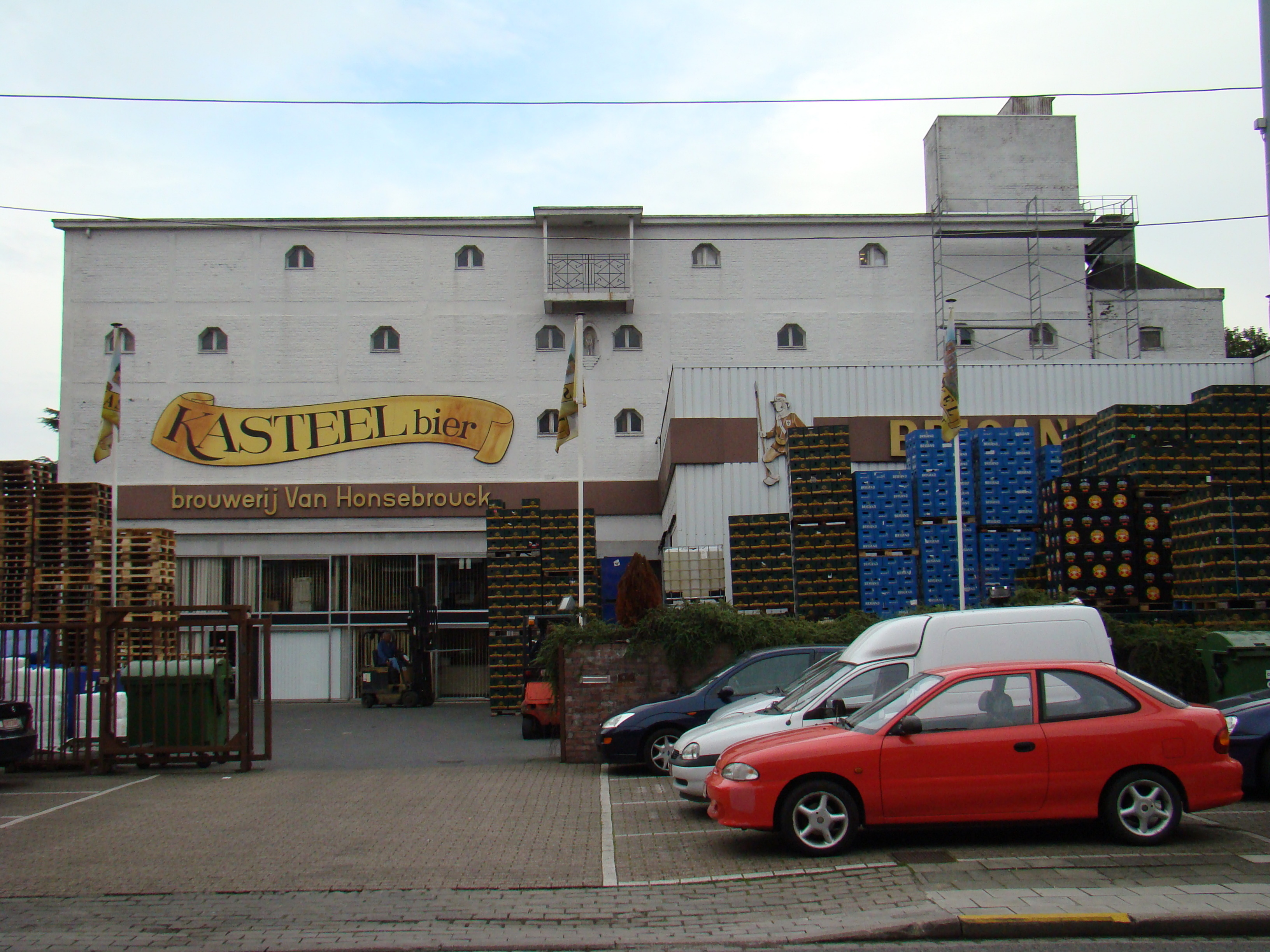 Brouwerij Van Honsebrouck Brewery (Brigand, Kasteelbier) Ingelmunster (West Flanders, Belgium)